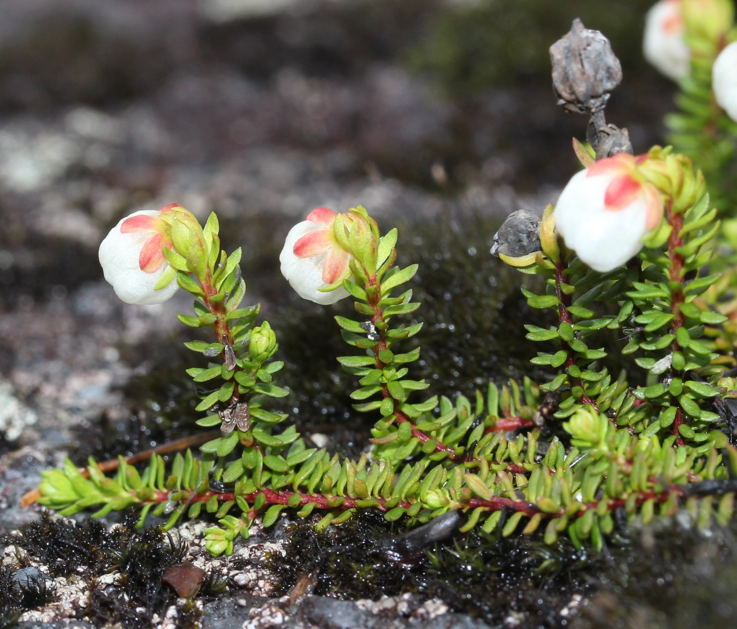 Harrimanella stelleriana in Mount Kisokoma, Kiso, Nagano prefecture, Japan.